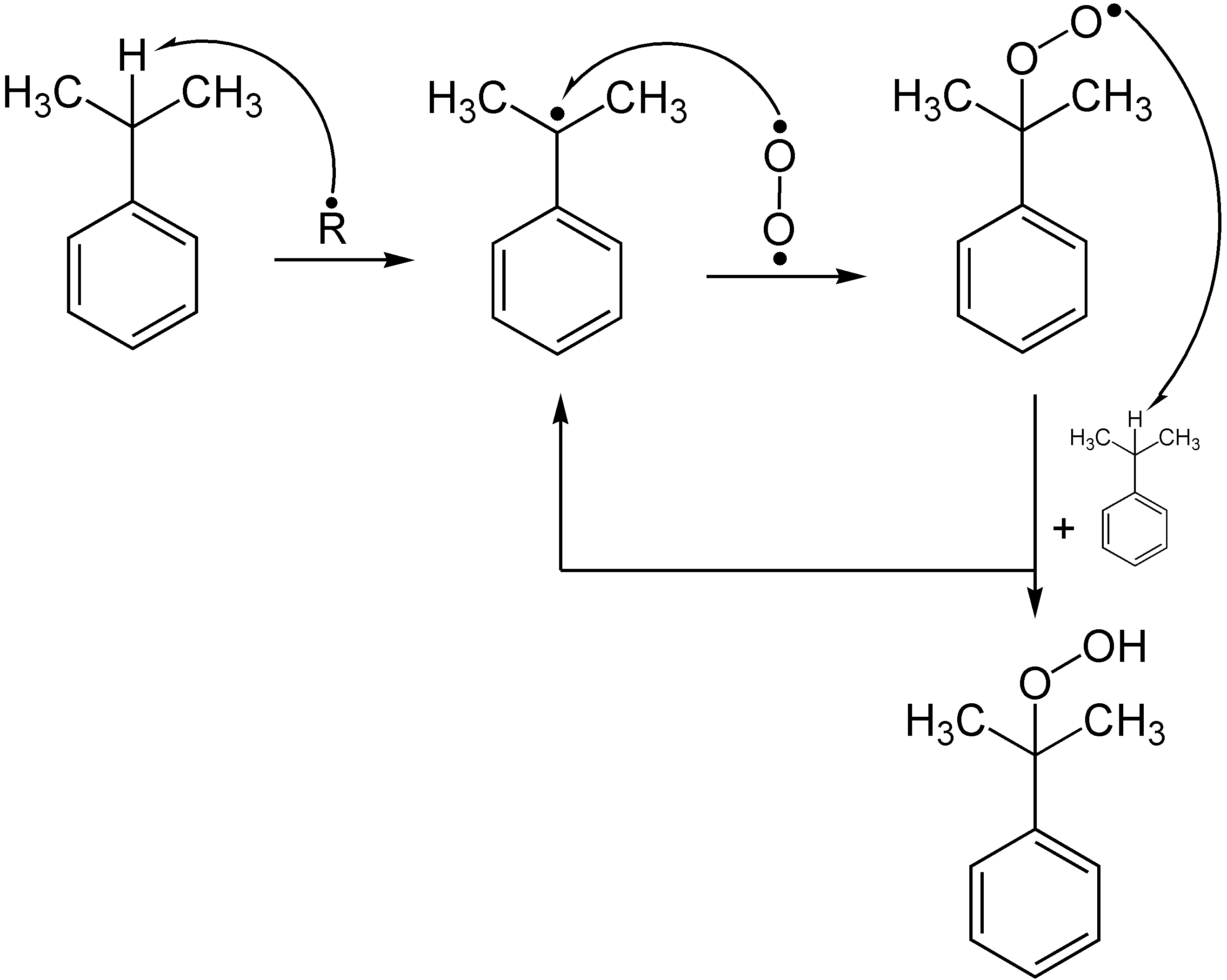 Mechanism of the cumene process.